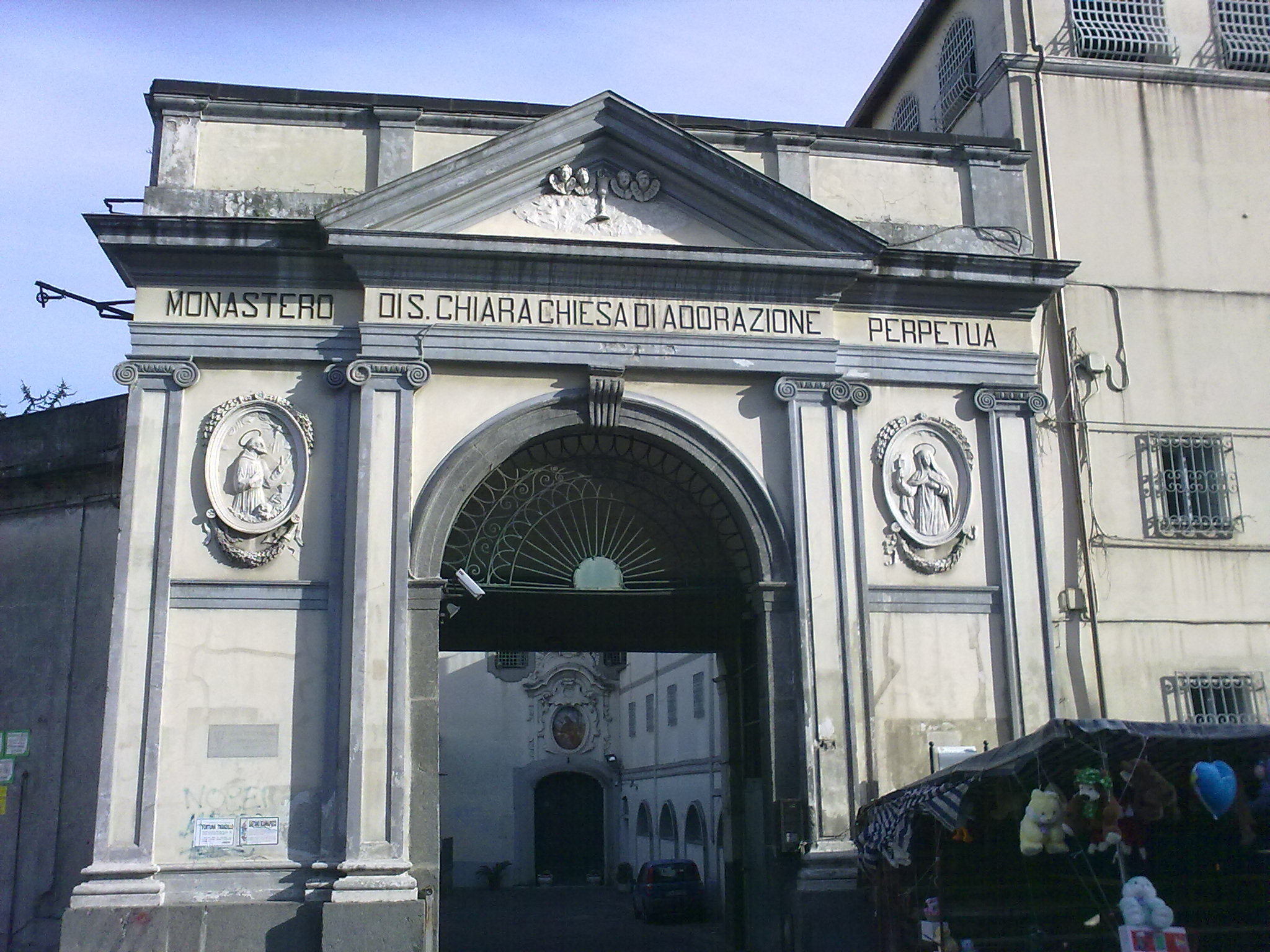 Nocera Inferiore, Monastery of Santa Chiara